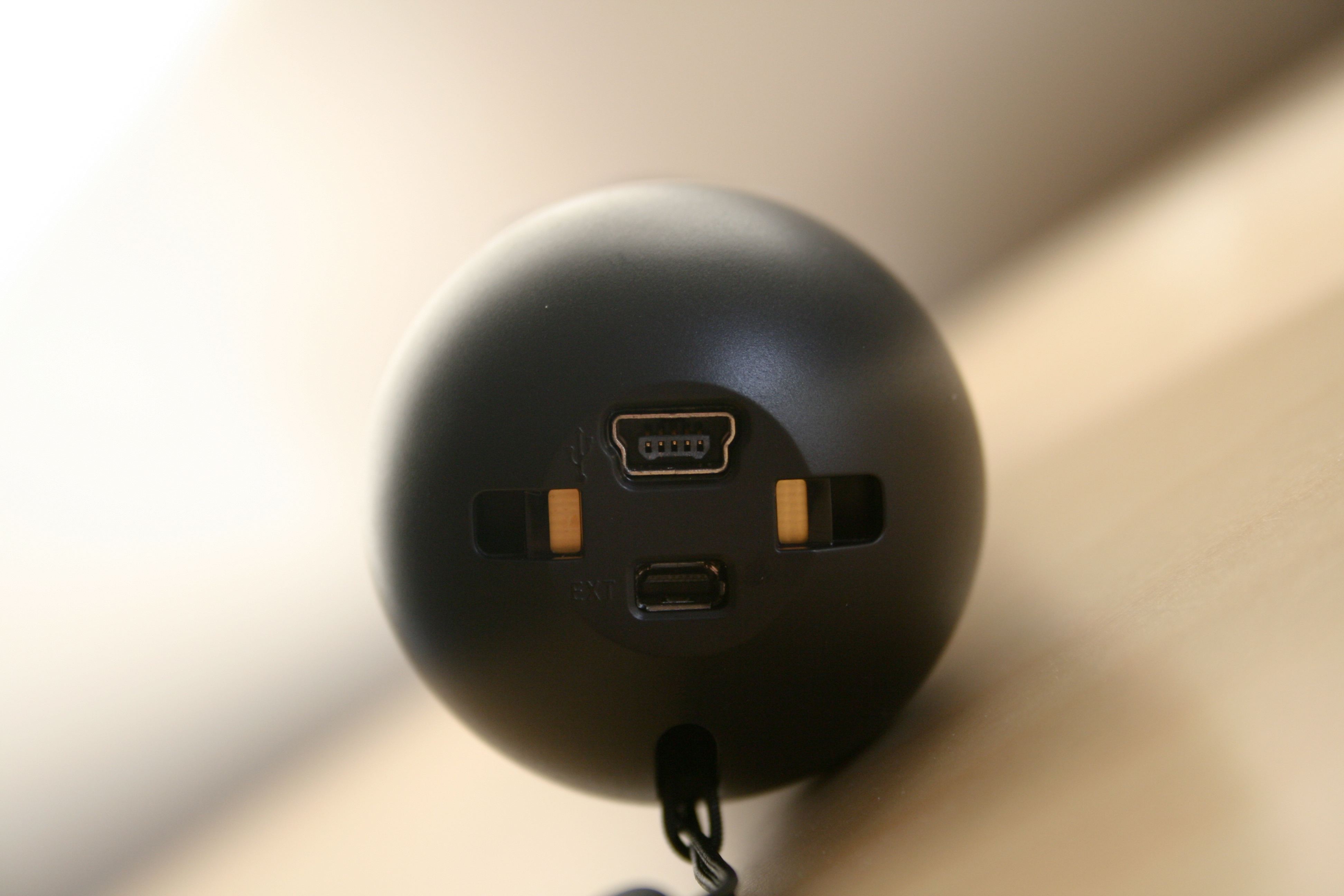 The base of the controller. It has a USB jack for charging / pairing, and a smaller (also USB, I think) jack marked as "EXT". Finally, it has two charging pins either side of the jacks for when it's placed in the docking station.